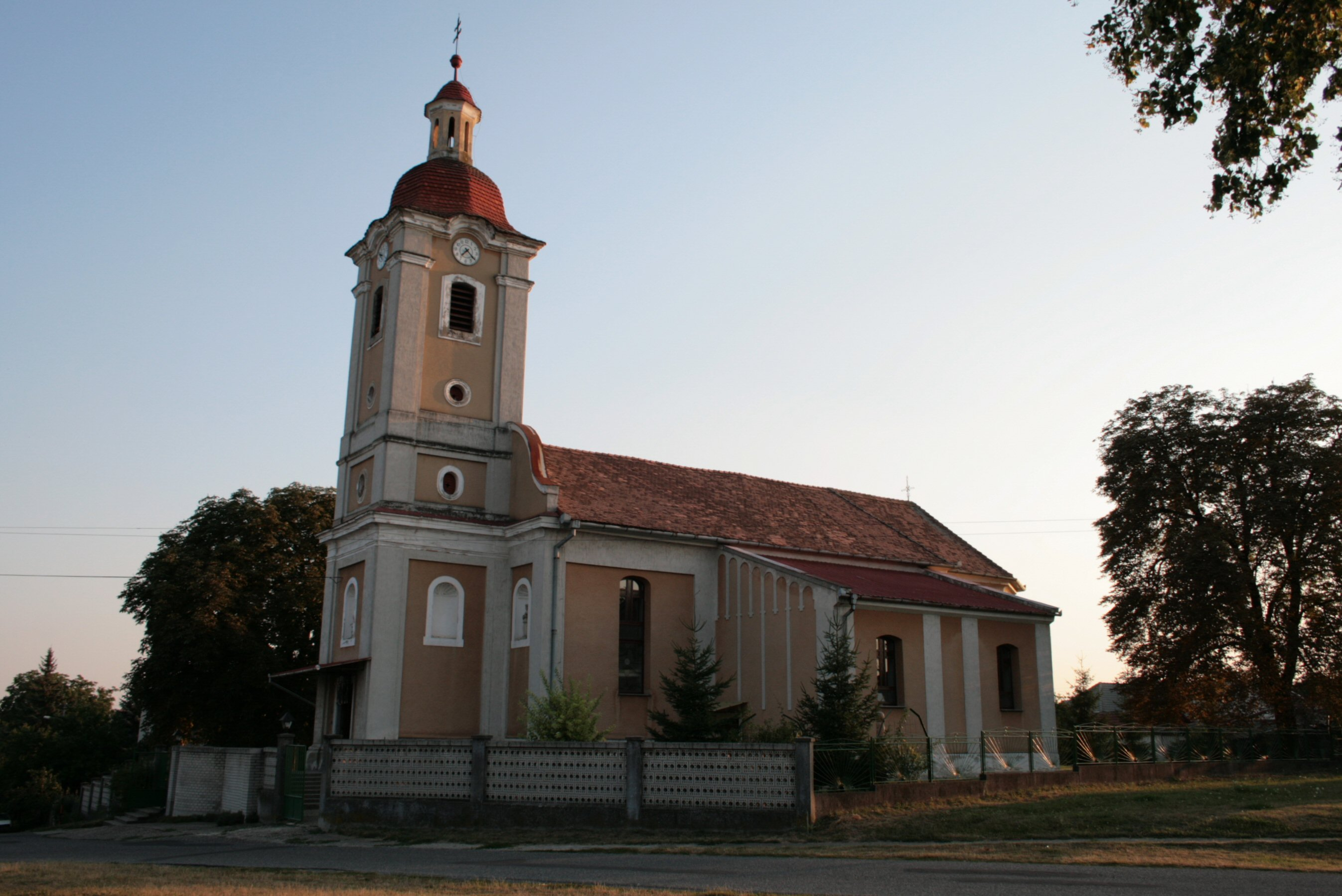 Church in Veľké Ludince (Levice district, Slovak Republic).